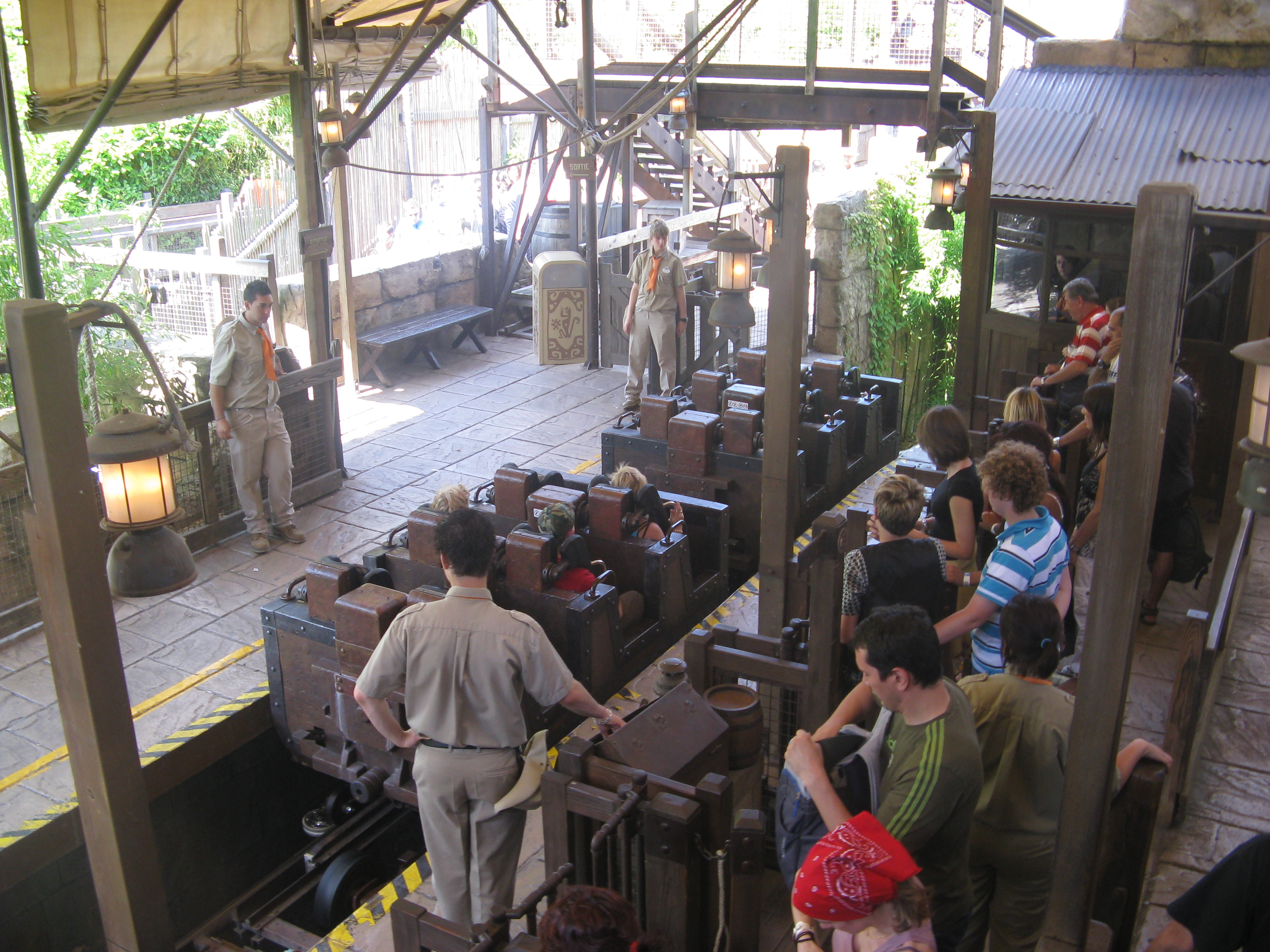 Indiana Jones et le Temple du Péril at Disneyland Paris